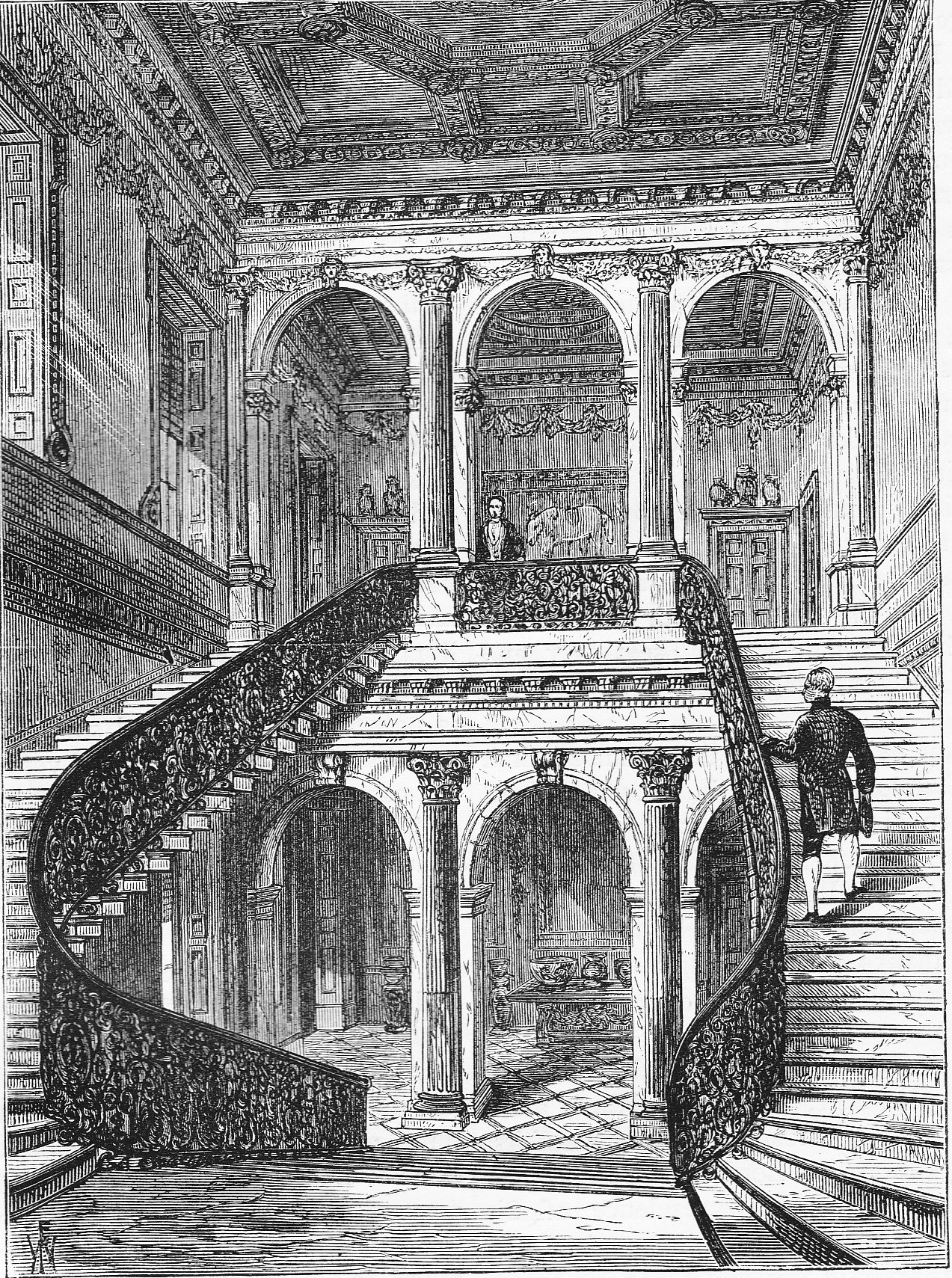 Staircase in Chesterfield House, Westminster. Published in Walford, Edward, Old & New London, 6 vols., London, 19th.c., vol. 4, p.354.